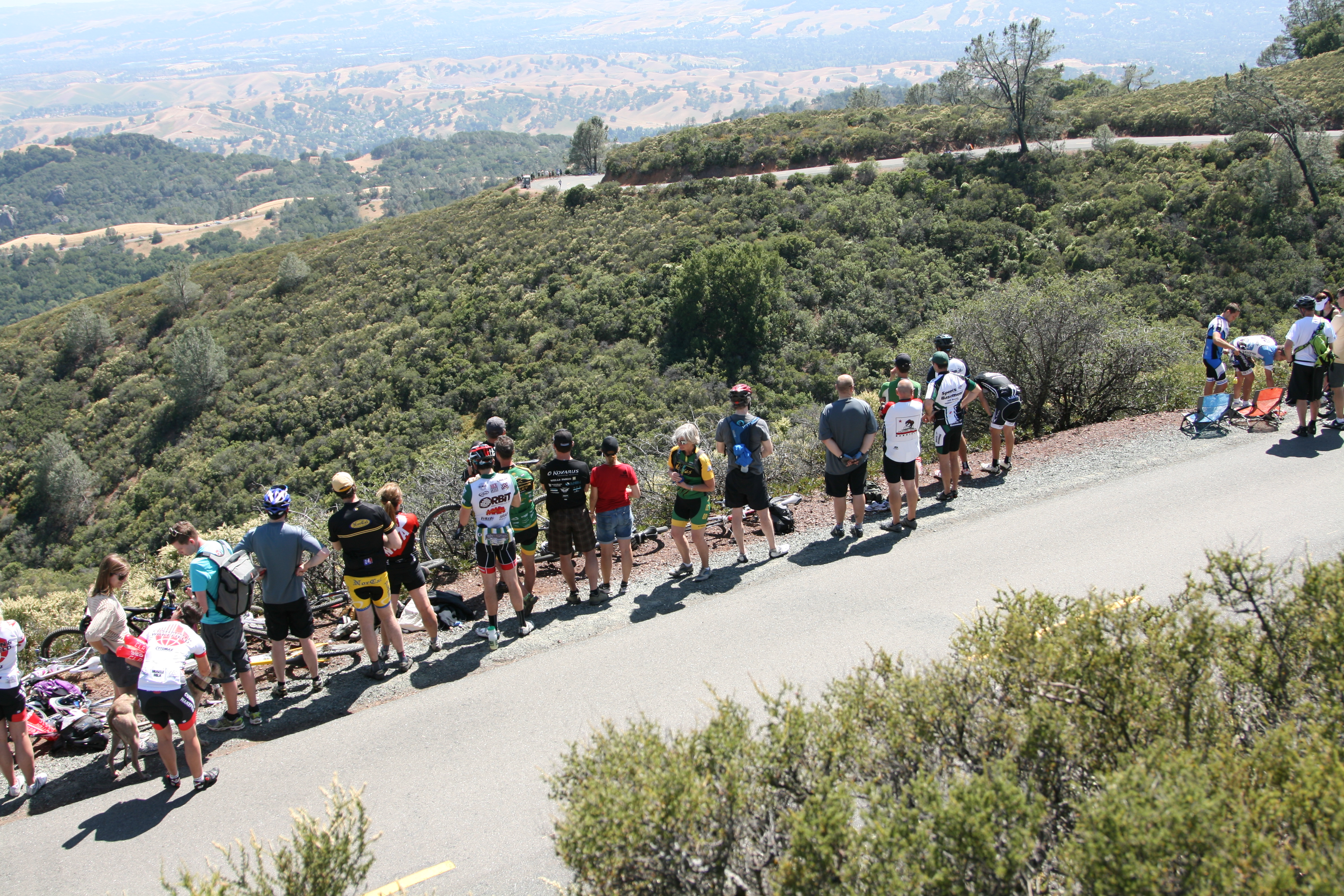 Cycling fans stand by the road, watching the riders of the 2013 Amgen Tour of California climb Mount Diablo in the seventh stage. Photos shot 5 km from the finish on Mount Diablo.